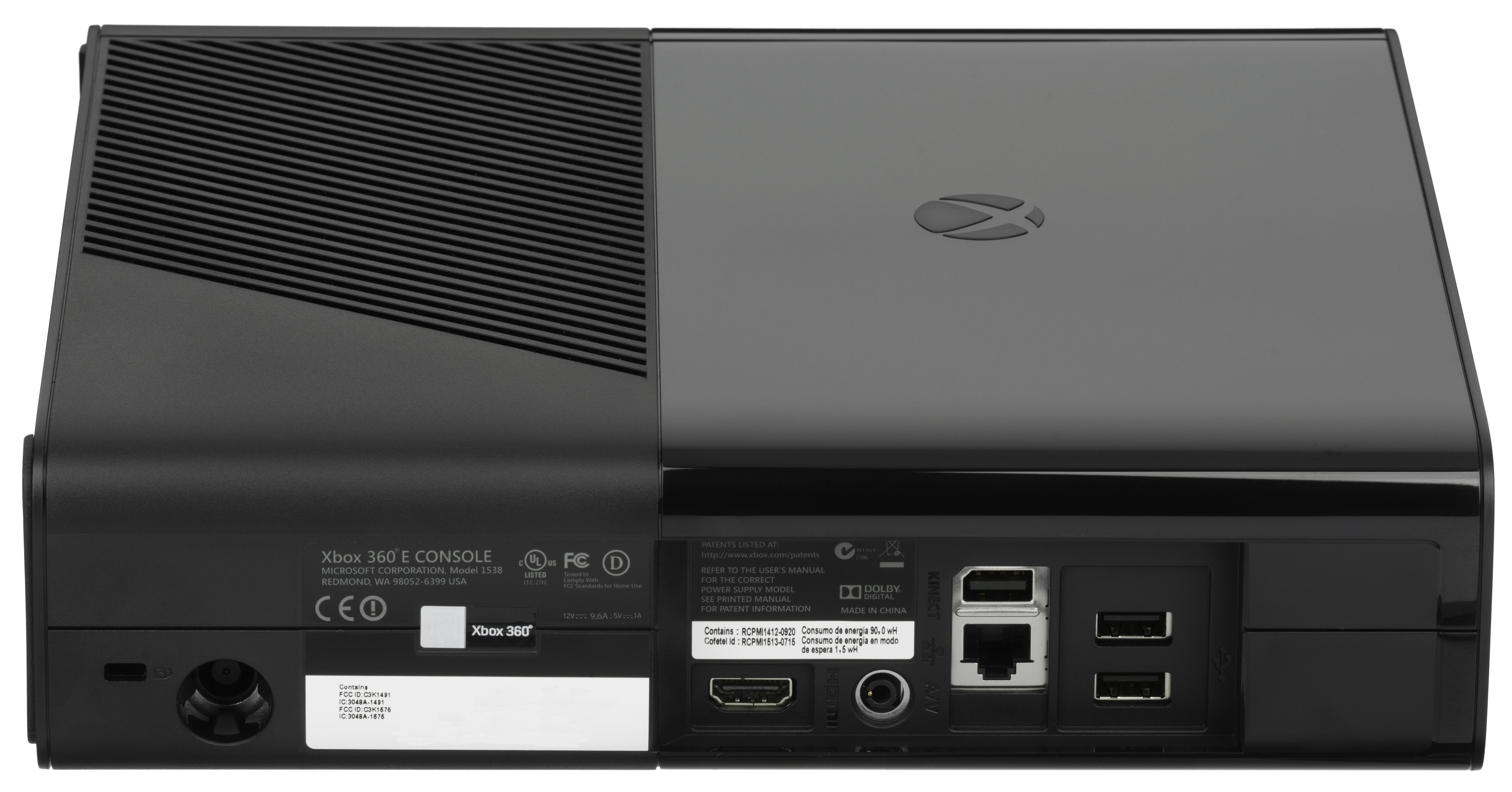 The Xbox 360 E, the third hardware revision in the Xbox 360 lineup. This picture shows the back of the unit and its inputs and outputs. The systems features: 4 USB ports (2 in back, 2 in front) HDMI out A/V out (special minijack port for composite video and stereo audio) Kinect dedicated port LAN input Power input (12V, 9,6A DC in)